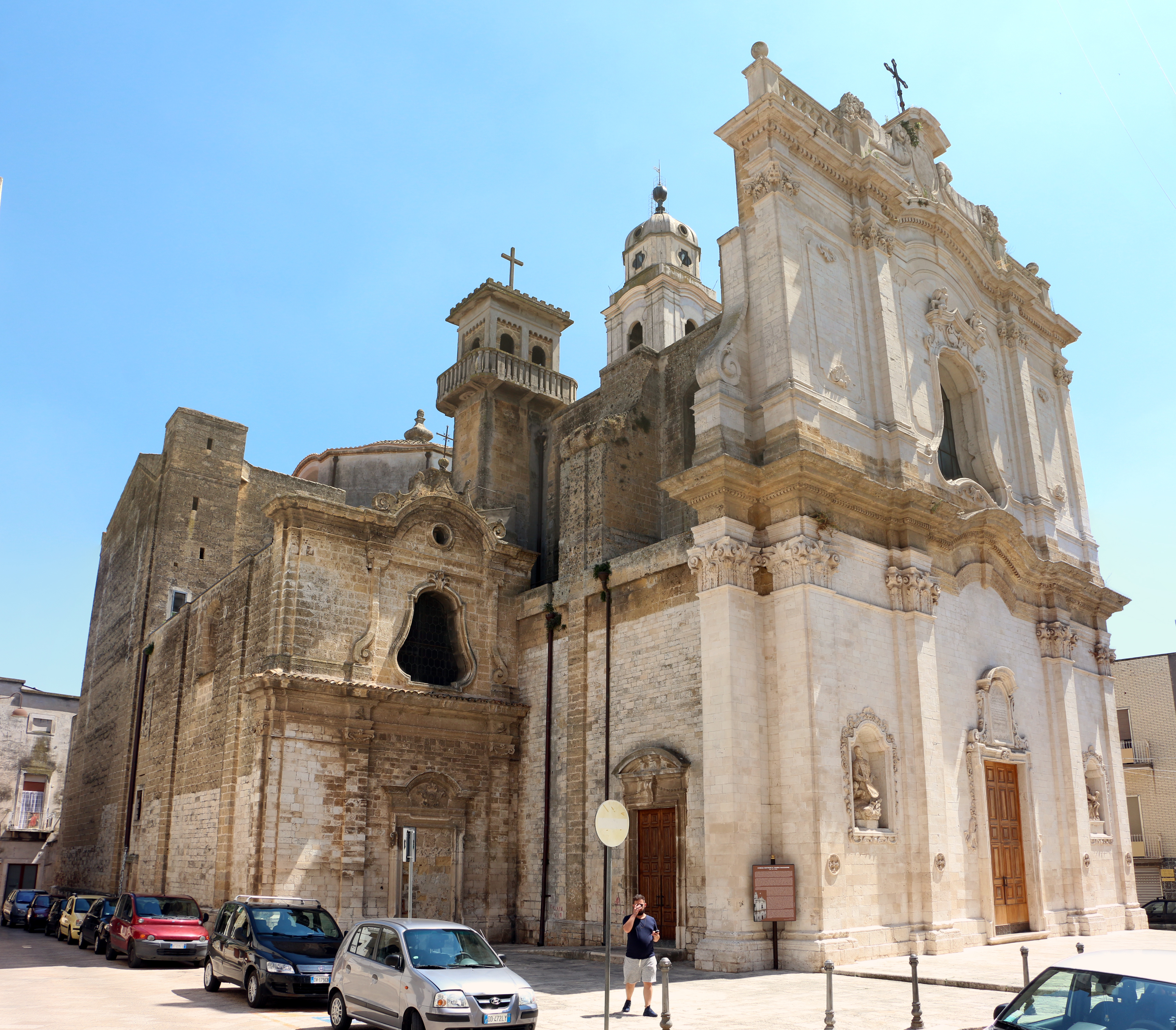 Churches in Gioia del Colle